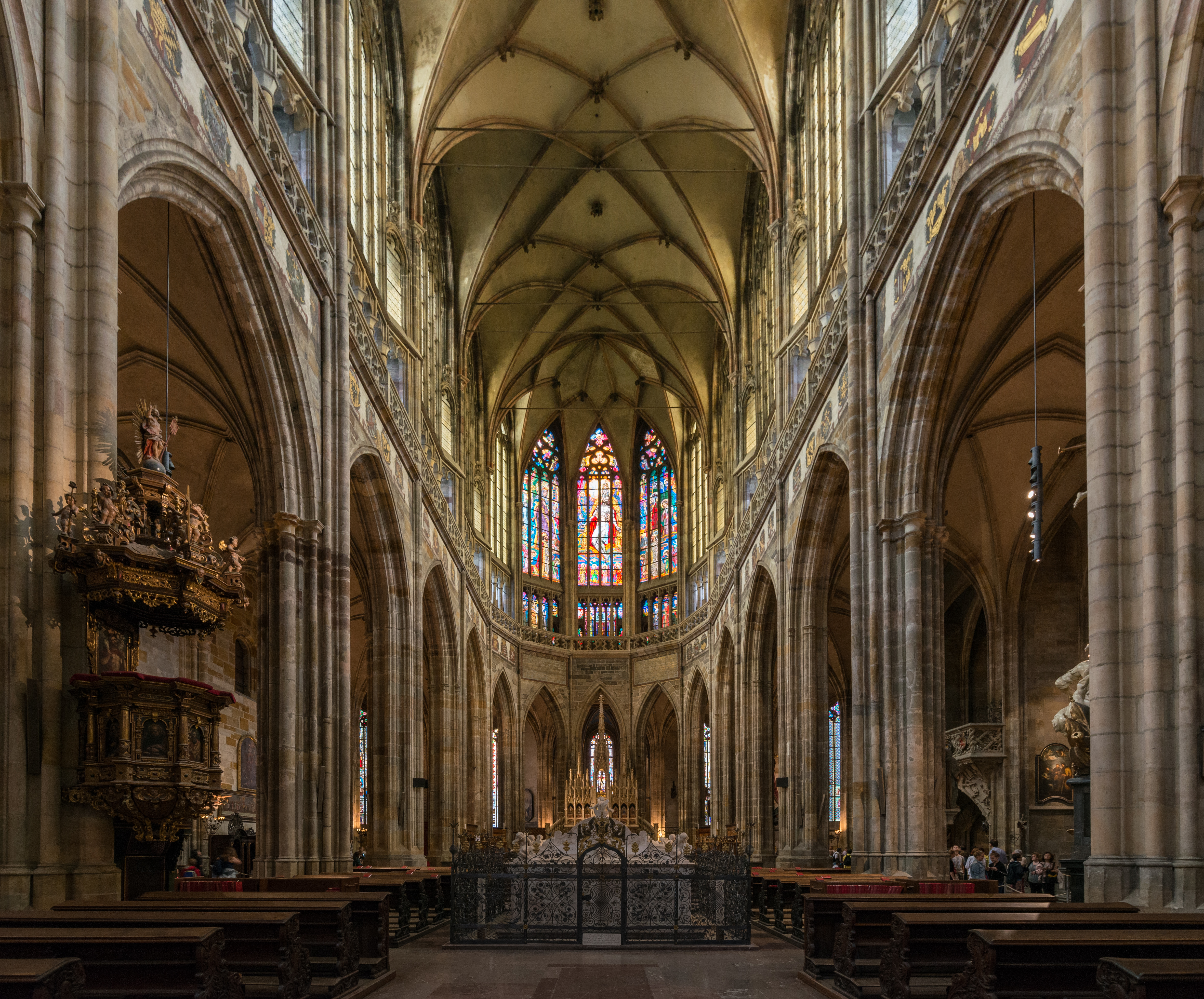 A view of the nave of St. Vitus Cathedral, Prague